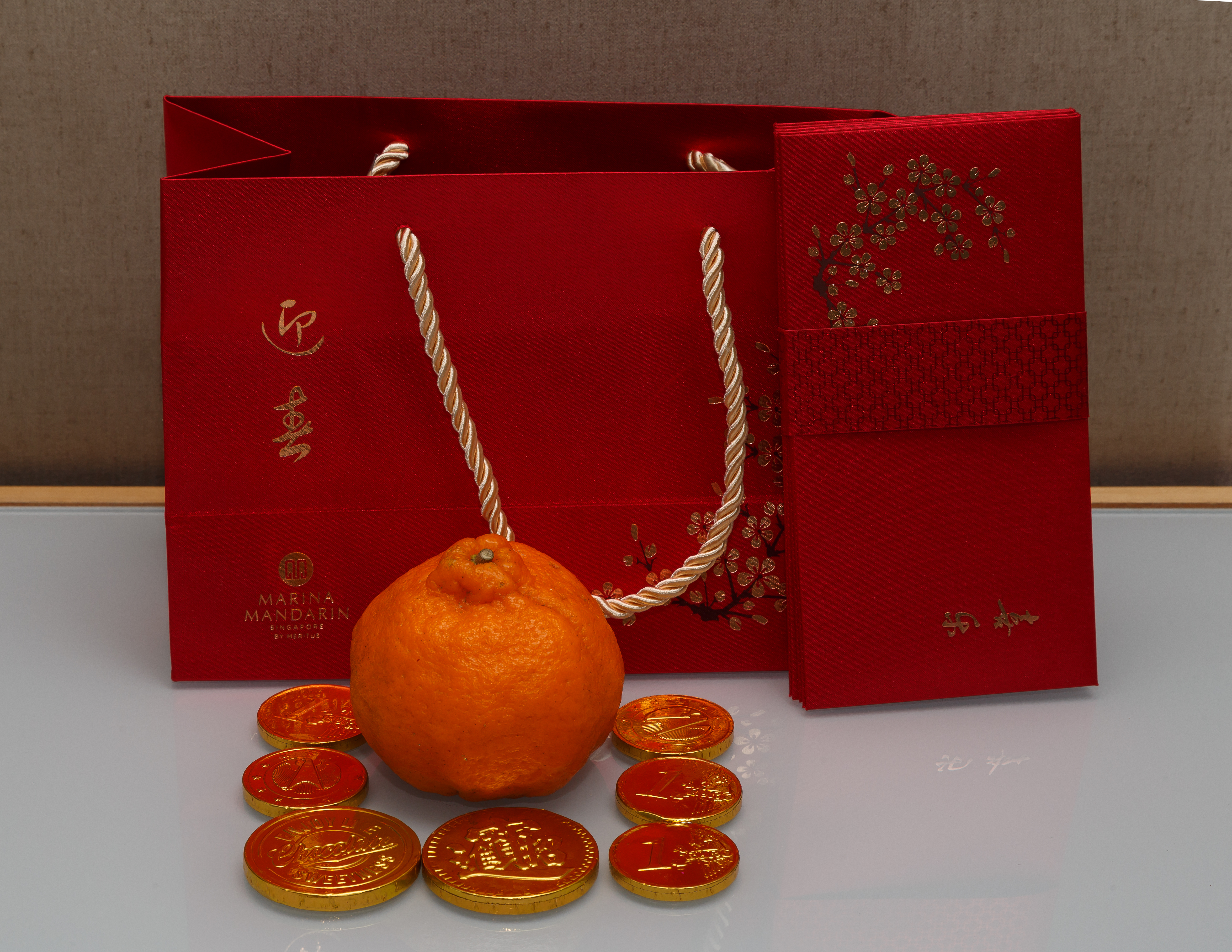 Singapore: Attributes for a Prosperous and Happy Chinese New Year 2015